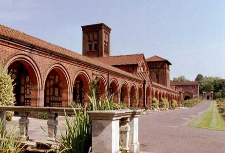 Cloister at Golders Green Crematorium